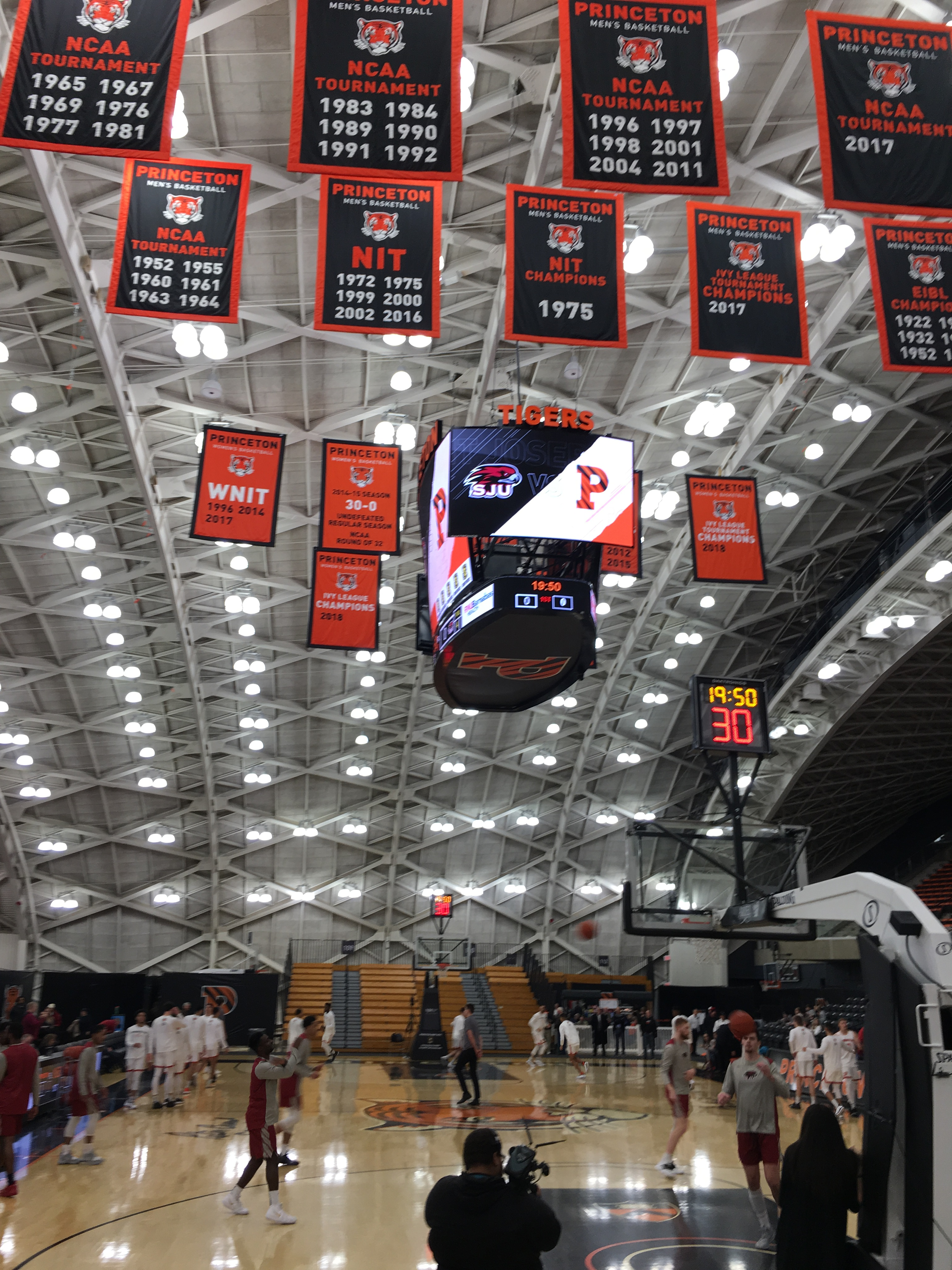 Some of the banners (there are more) noting the successes of the Princeton Tigers' men's and women's basketball teams, as seen displayed underneath the rafters of Jadwin Gymnasium in Princeton.